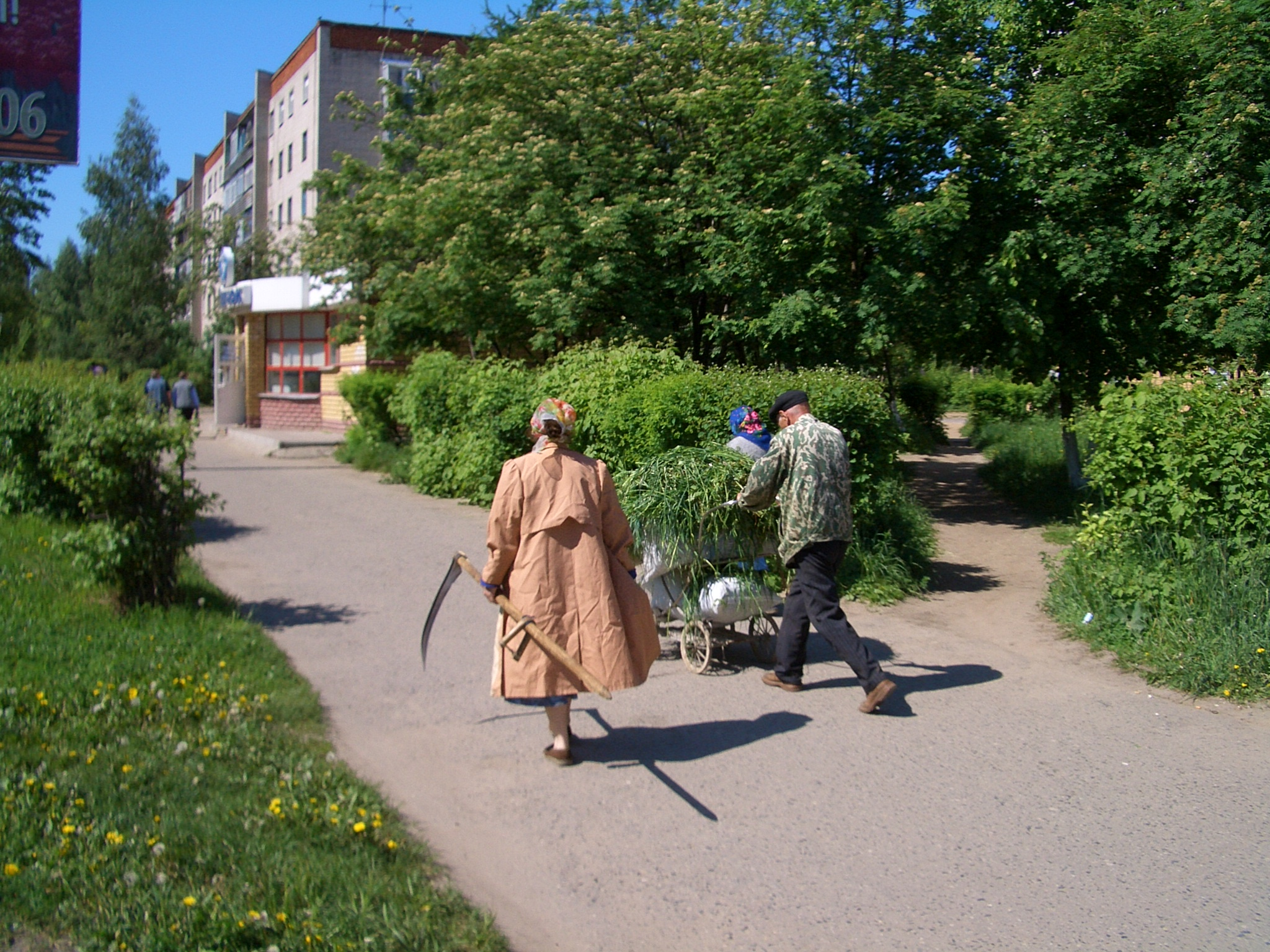 In the town of Kstovo, significant attention is paid to landscaping; rabbit farming is not forgotten in neighboring villages either